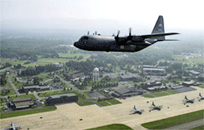 C-130 over Youngstown ARB, Ohio